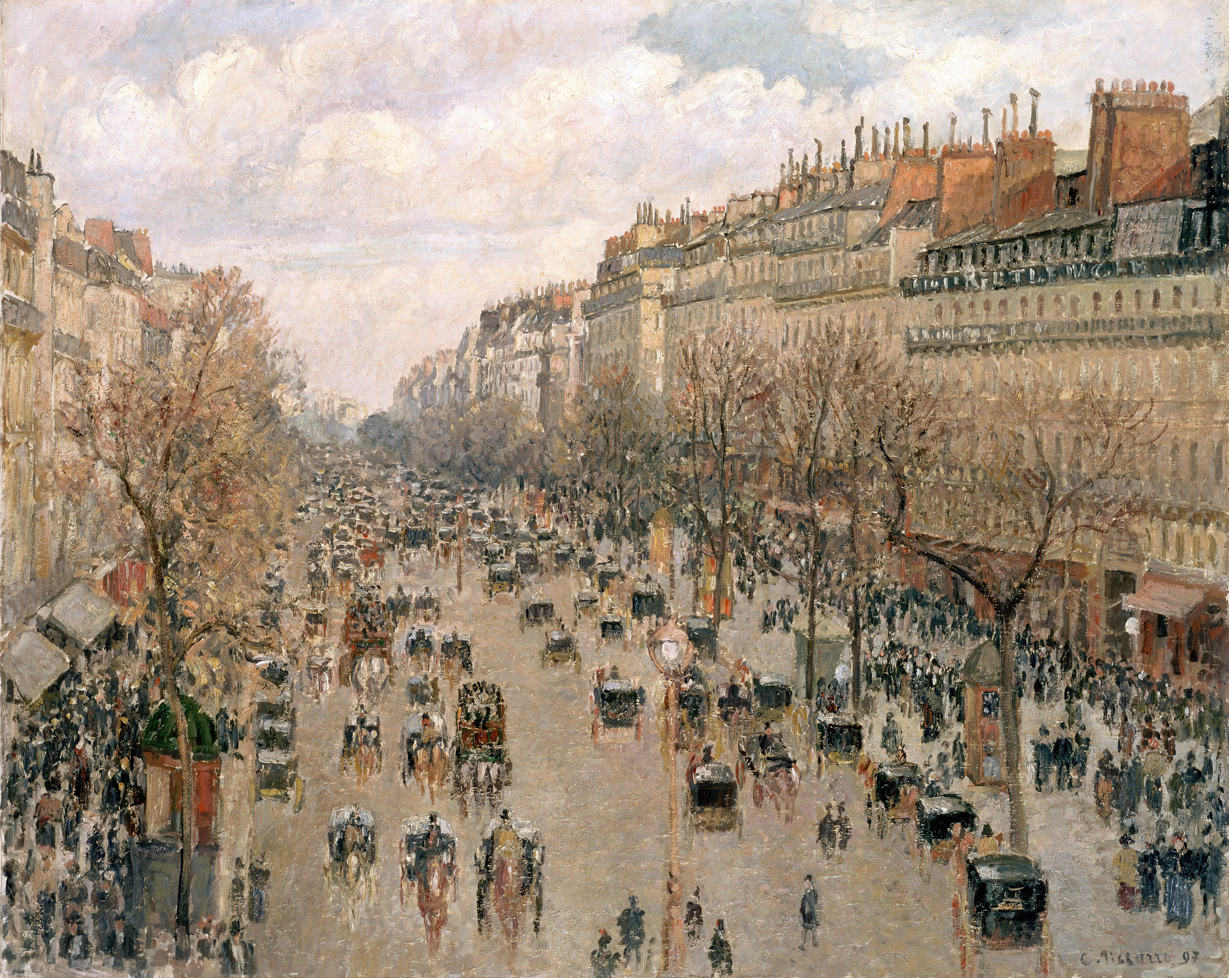 Depicted place: boulevard Montmartre